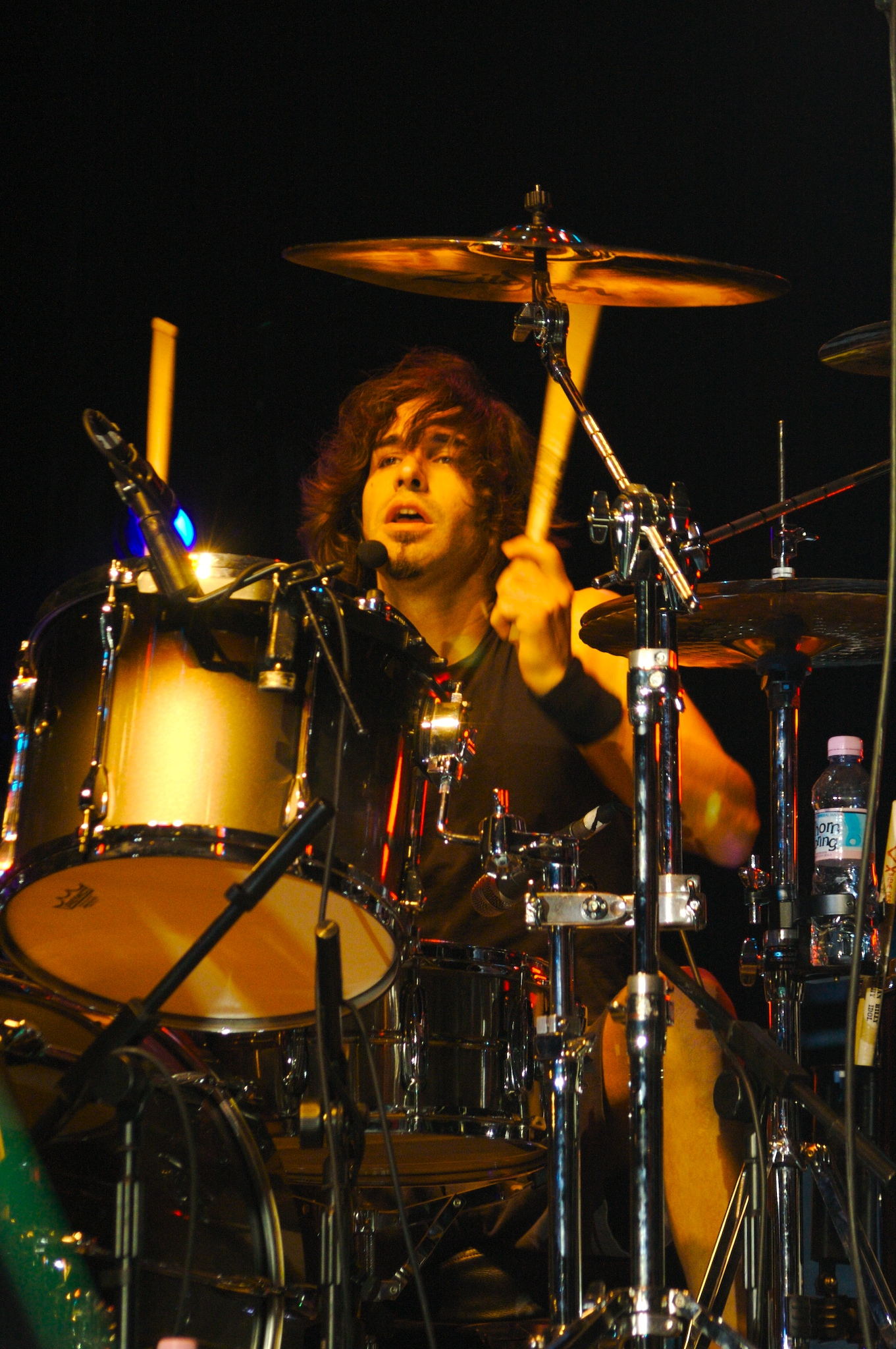 Brian Tichy performing with Billy Idol